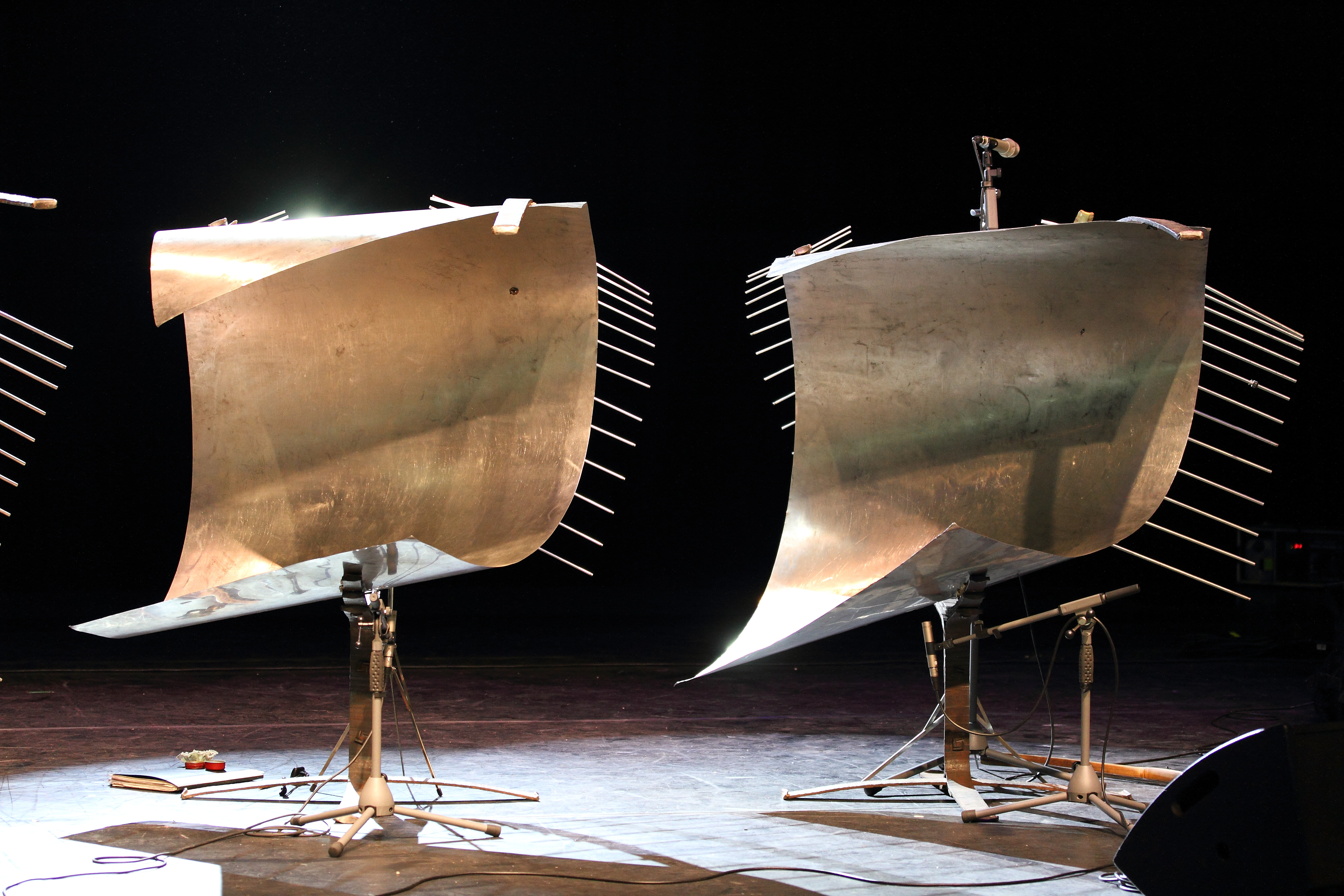 The Stahlquartett is a musical ensemble for Neue Musik, playing cellos made of steel. Here´s the concert at Theater im Stadthaus at Rudolstadt-Festival 2018.